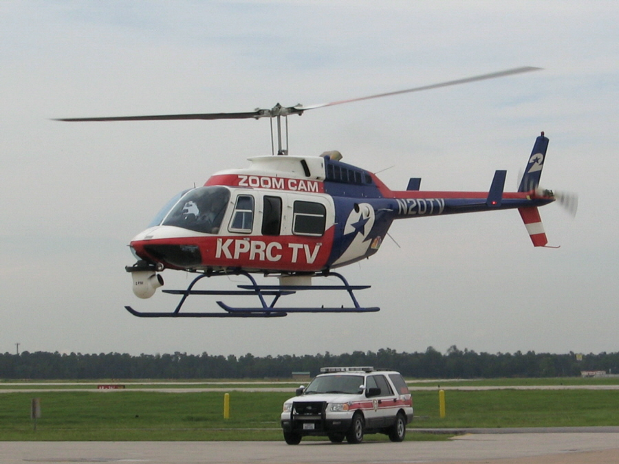 Daniel2986 05:08, 28 December 2006 (UTC) KPRC-TV's Chopper 2 departing George Bush Intercontinental Airport.